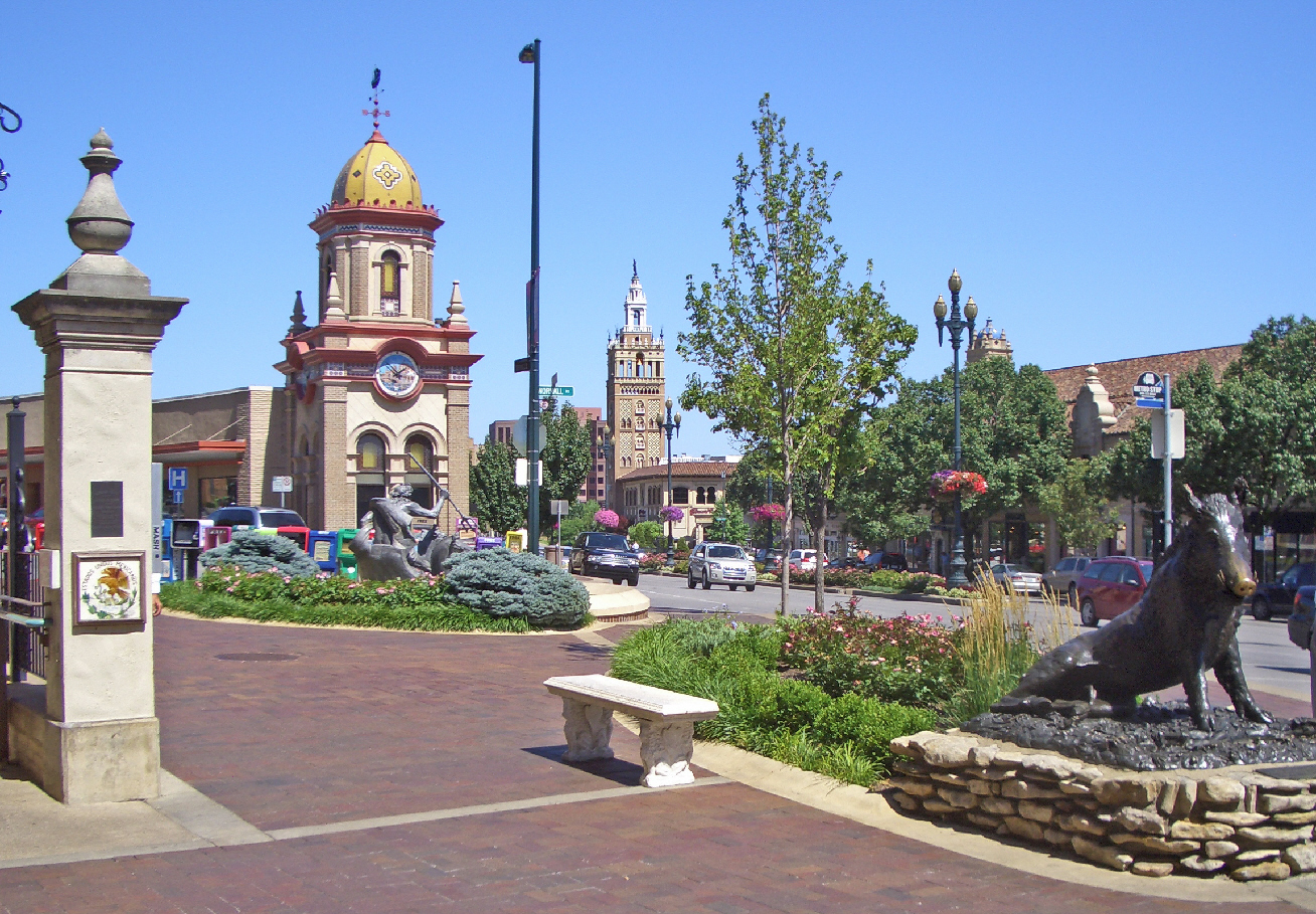 Country Club Plaza (view from 47th Street at Wornall Road), Kansas City, Missouri